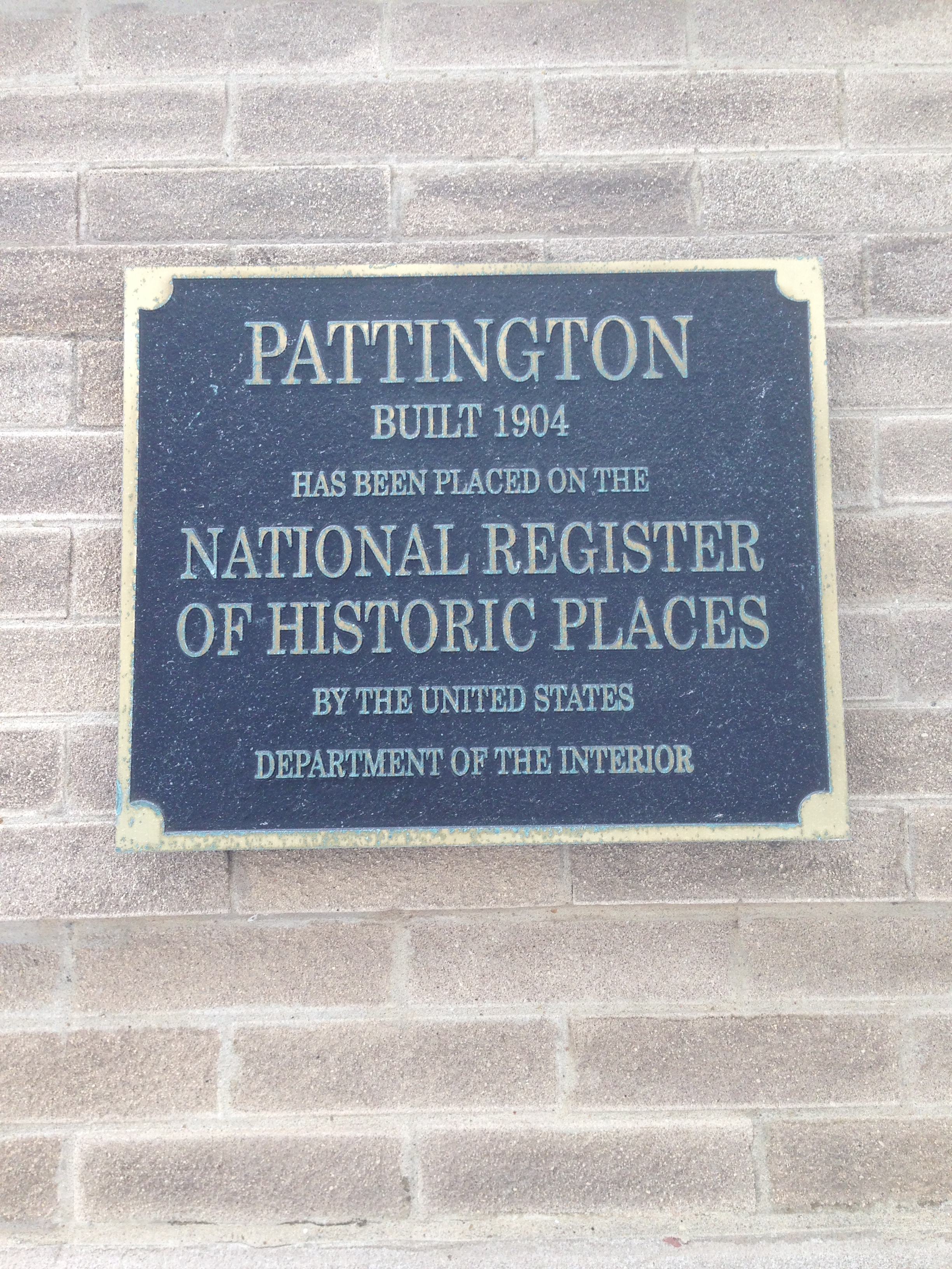 Pattington marker-Chicago